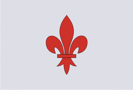 Flag of Roger de Flor